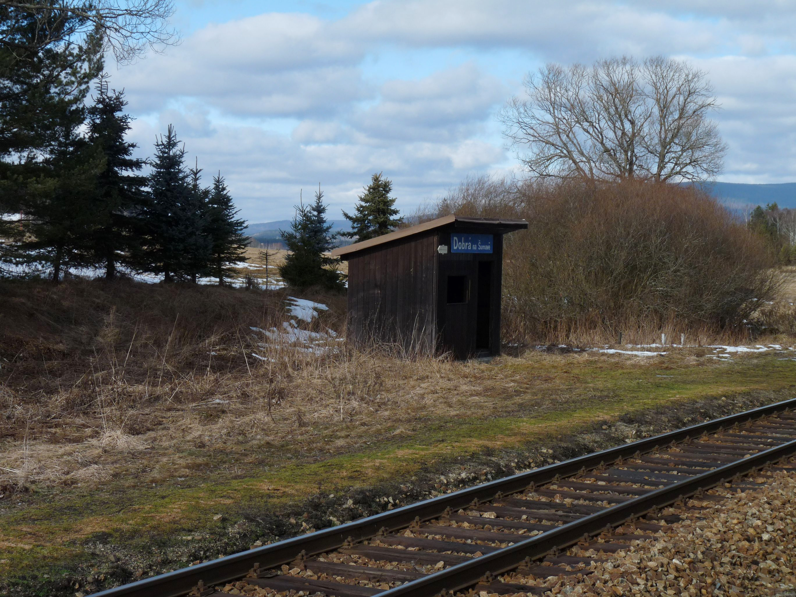 Railway stop near the village of Dobrá, Bohemian Forest, part of the municipality of Stožec, Prachatice District, South Bohemian Region, Czech Republic.